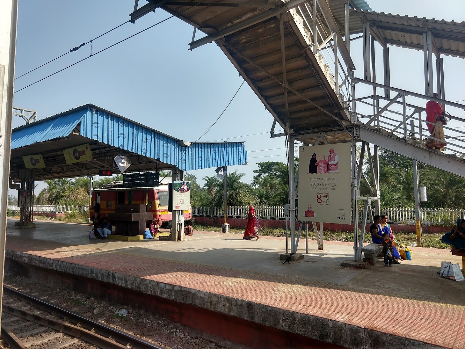 This is the Picture of Khallikot railway station